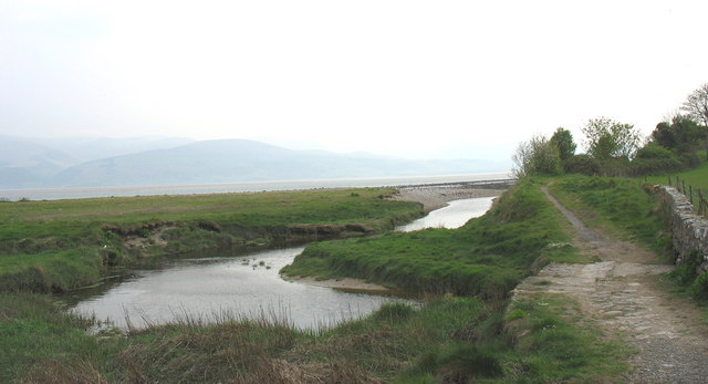 Aberlleiniog - the estuary of Afon Lleiniog